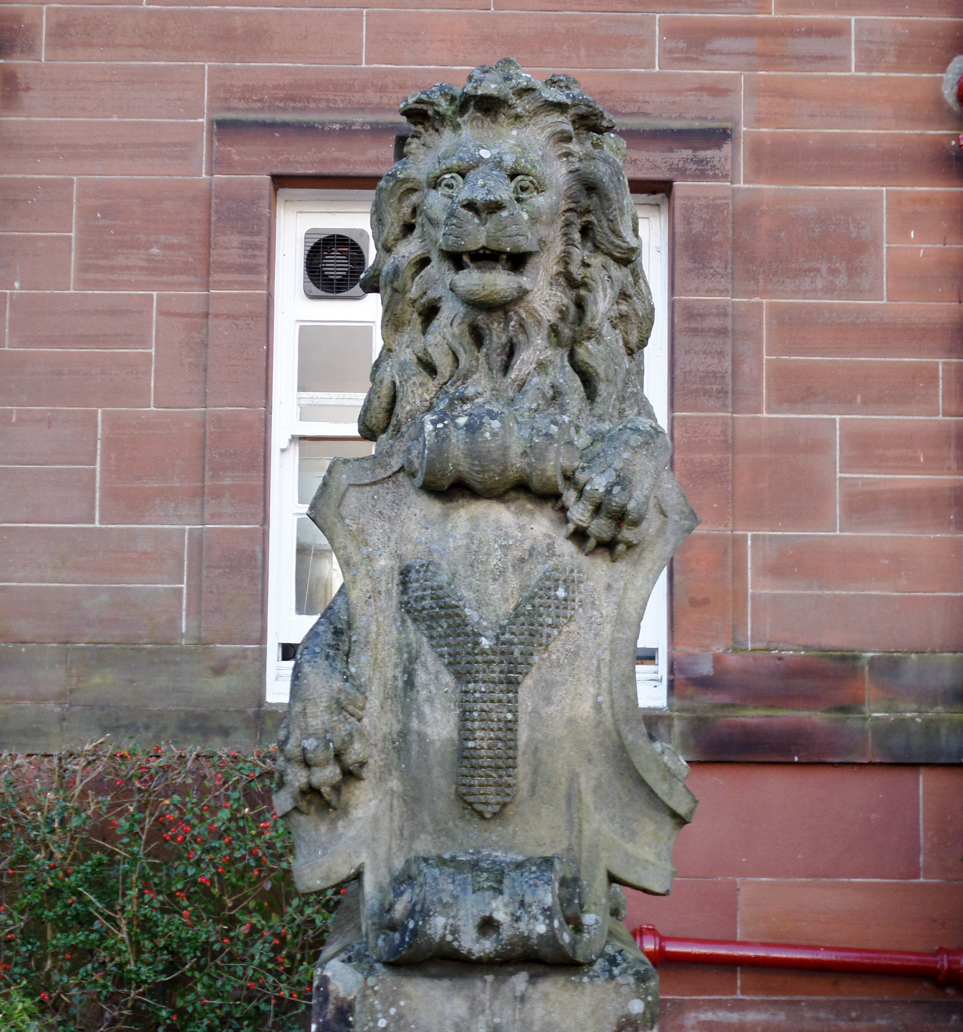 Craigends House, Cuninghame coat of arms, Houston, Renfrewshire - located at the Carrick Centre in Houston after the demolition of the mansion house.